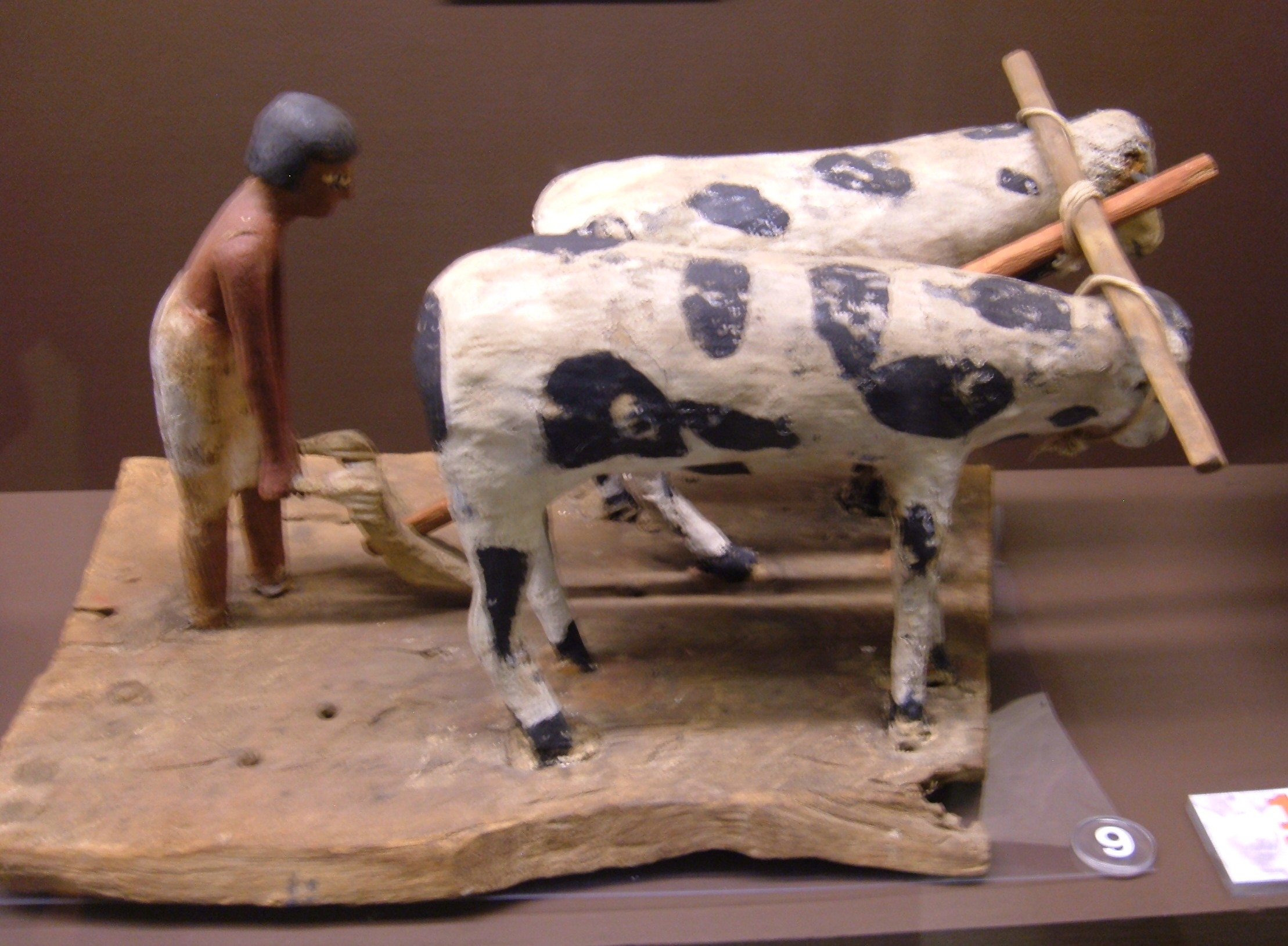 Wooden tomb model of a man plowing barley (Dynasty 12) on display at the Rosicrucian Egyptian Museum in San Jose, California. RC 1810